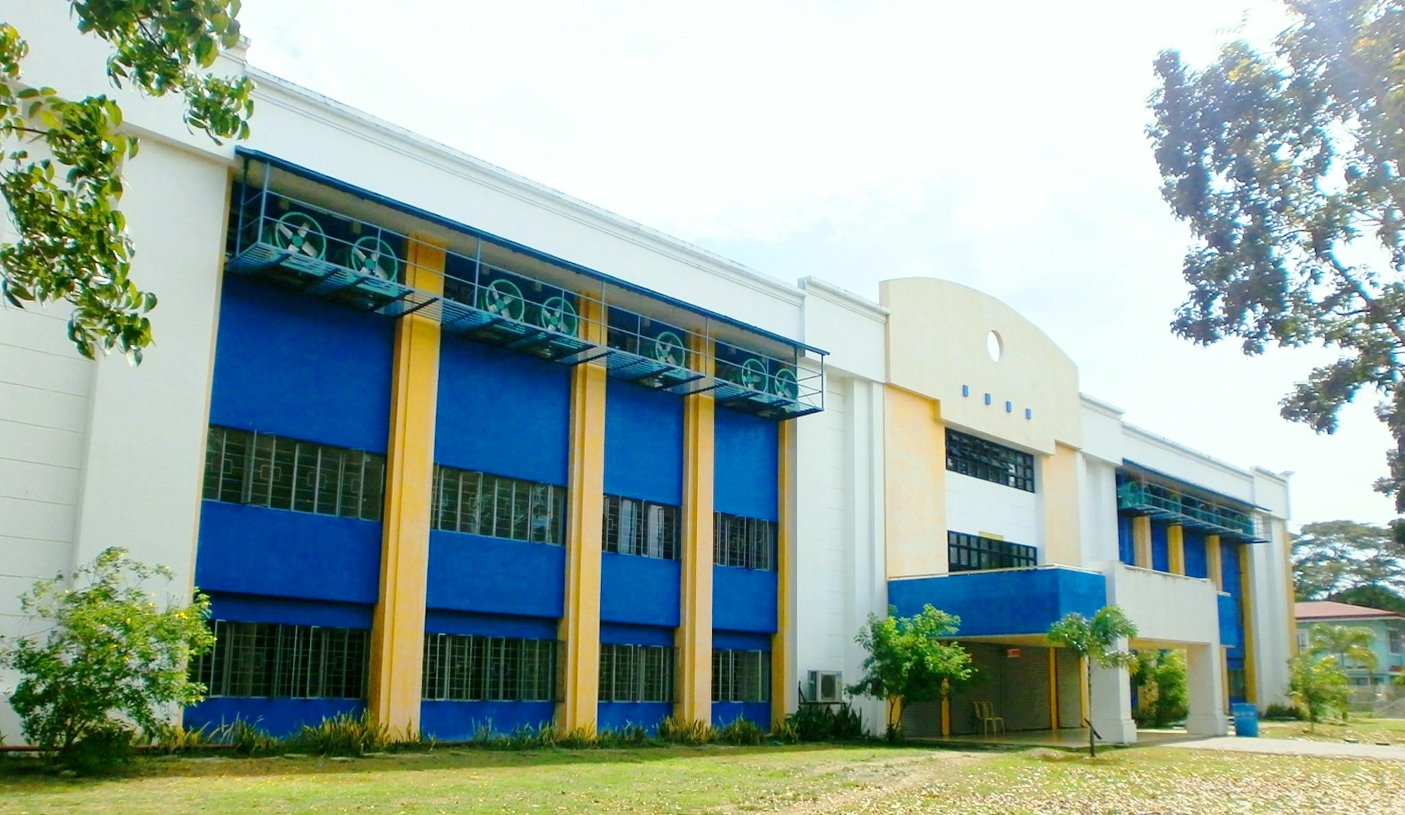 Central Philippine University Gymnasium